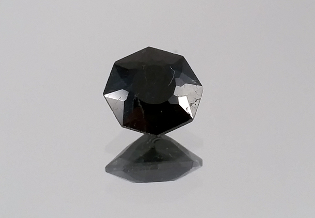 Faceted Gahnite, 1.34 ct, from Argentina